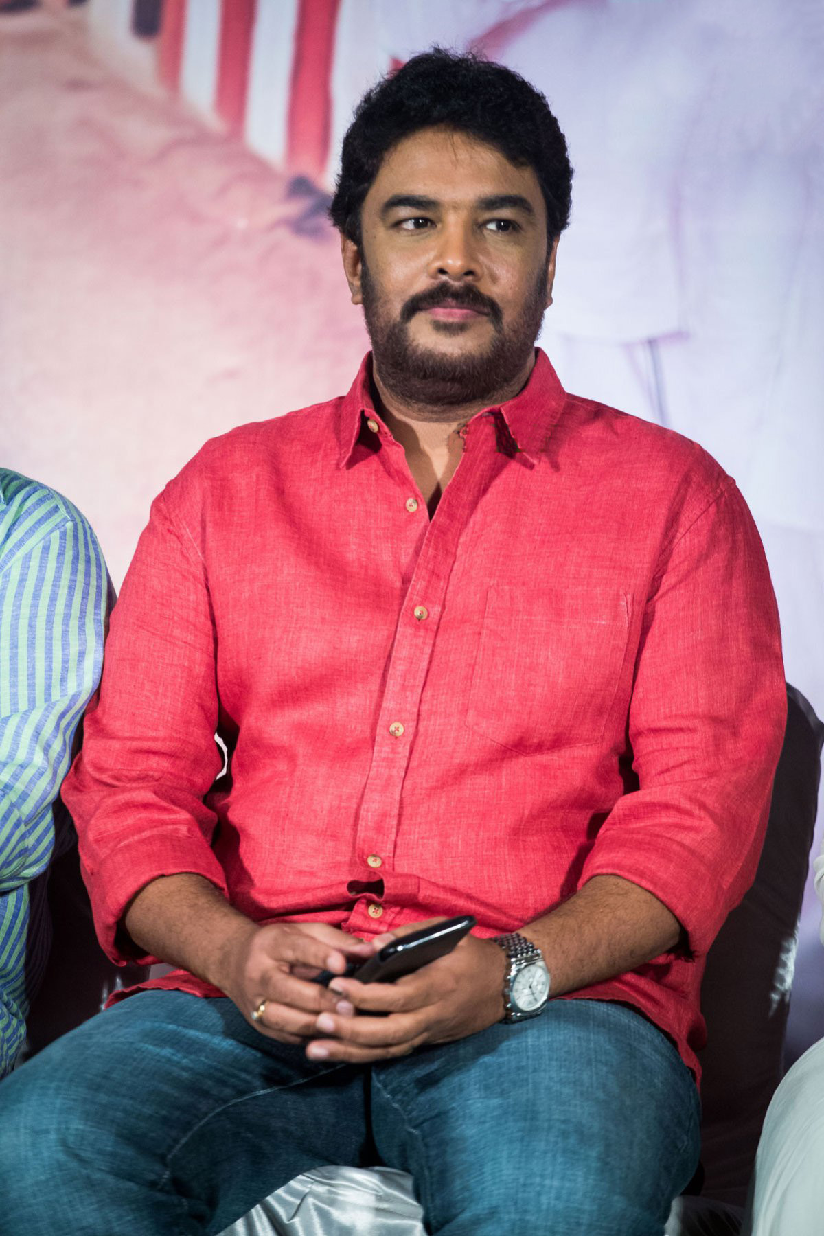 Sundar C at Muthina Kathirikai Audio Launch